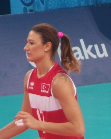 Neriman Ozsoy at the 2015 European Games